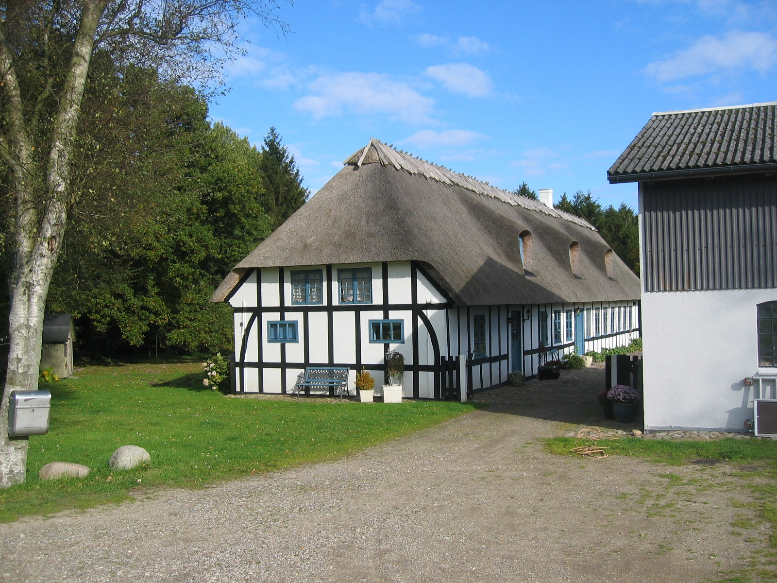 Old Danish farmhouse